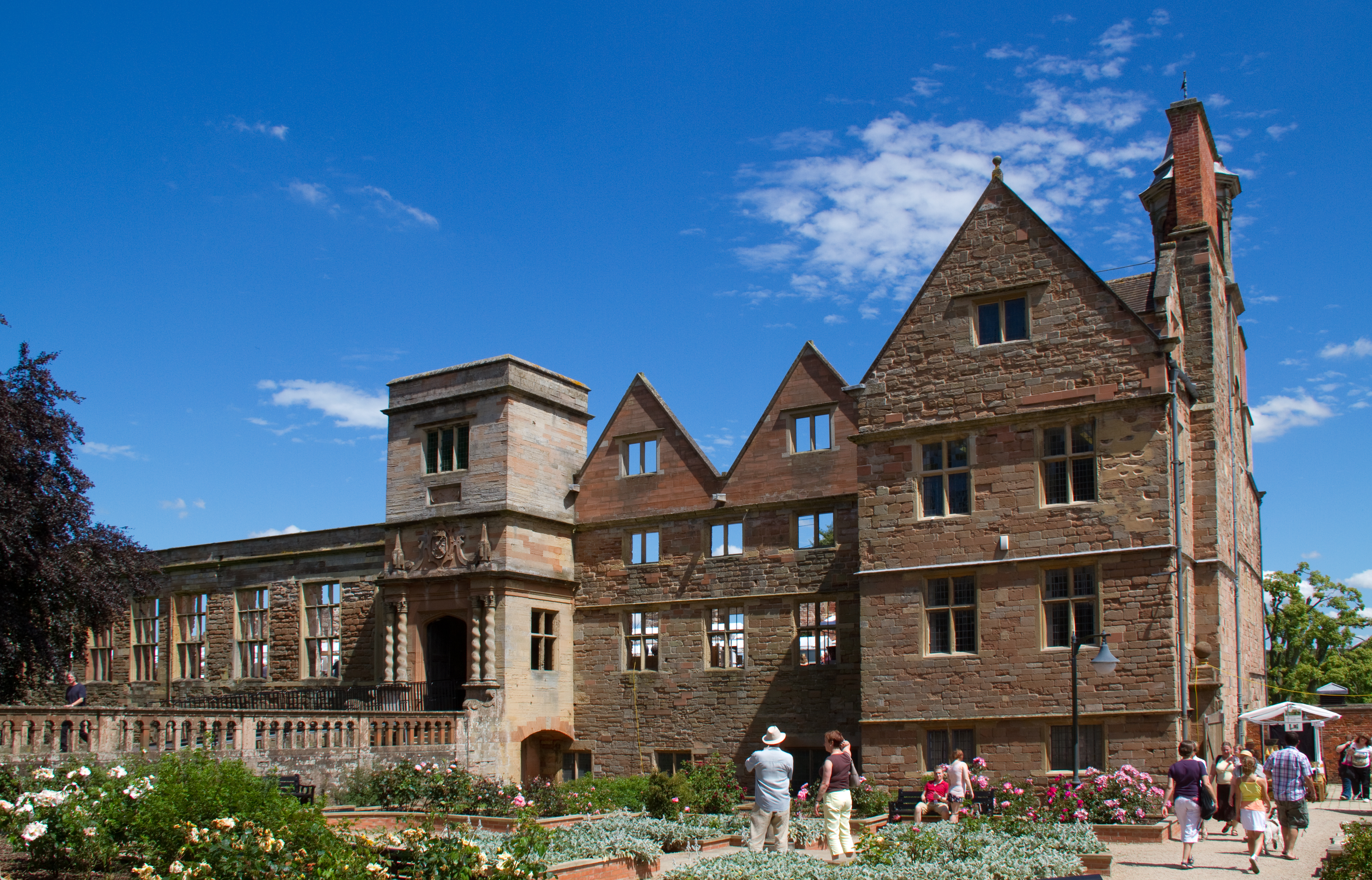 A Cistercian Abbey founded 1147 by Gilbert de Gant. Granted to the Earls of Shrewsbury in 1537. Partly demolished and converted to country house around 1560.